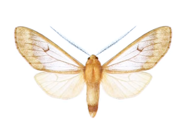 Adult, dorsal view